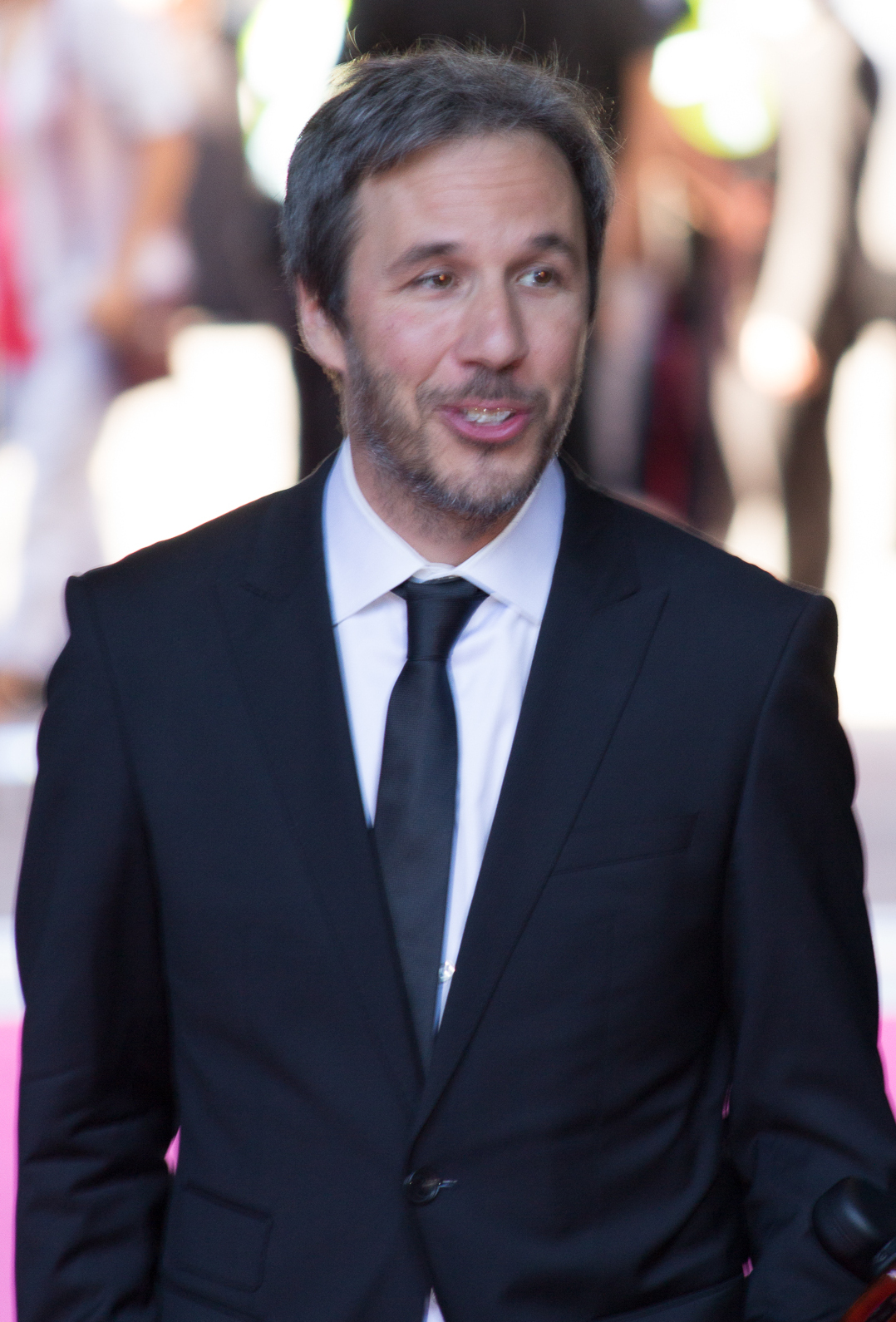 Denis at the 2013 Toronto International Film Festival